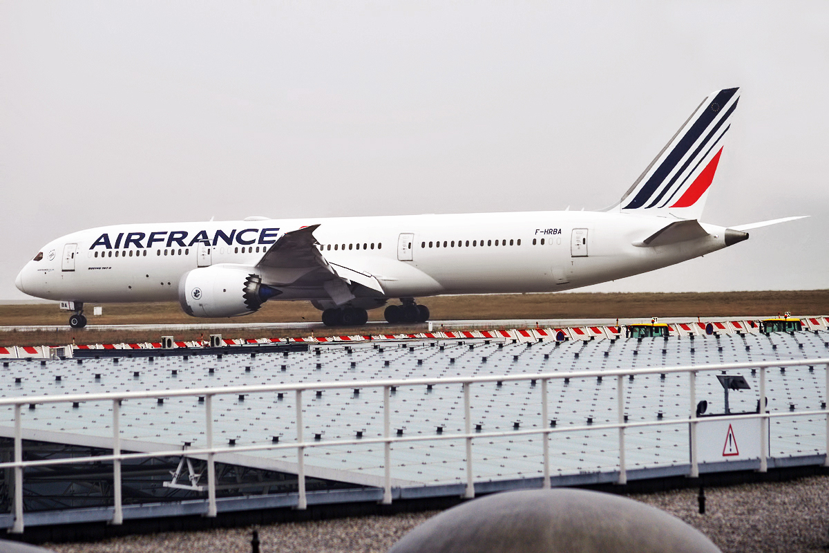 Air France, F-HRBA, Boeing 787-9 Dreamliner